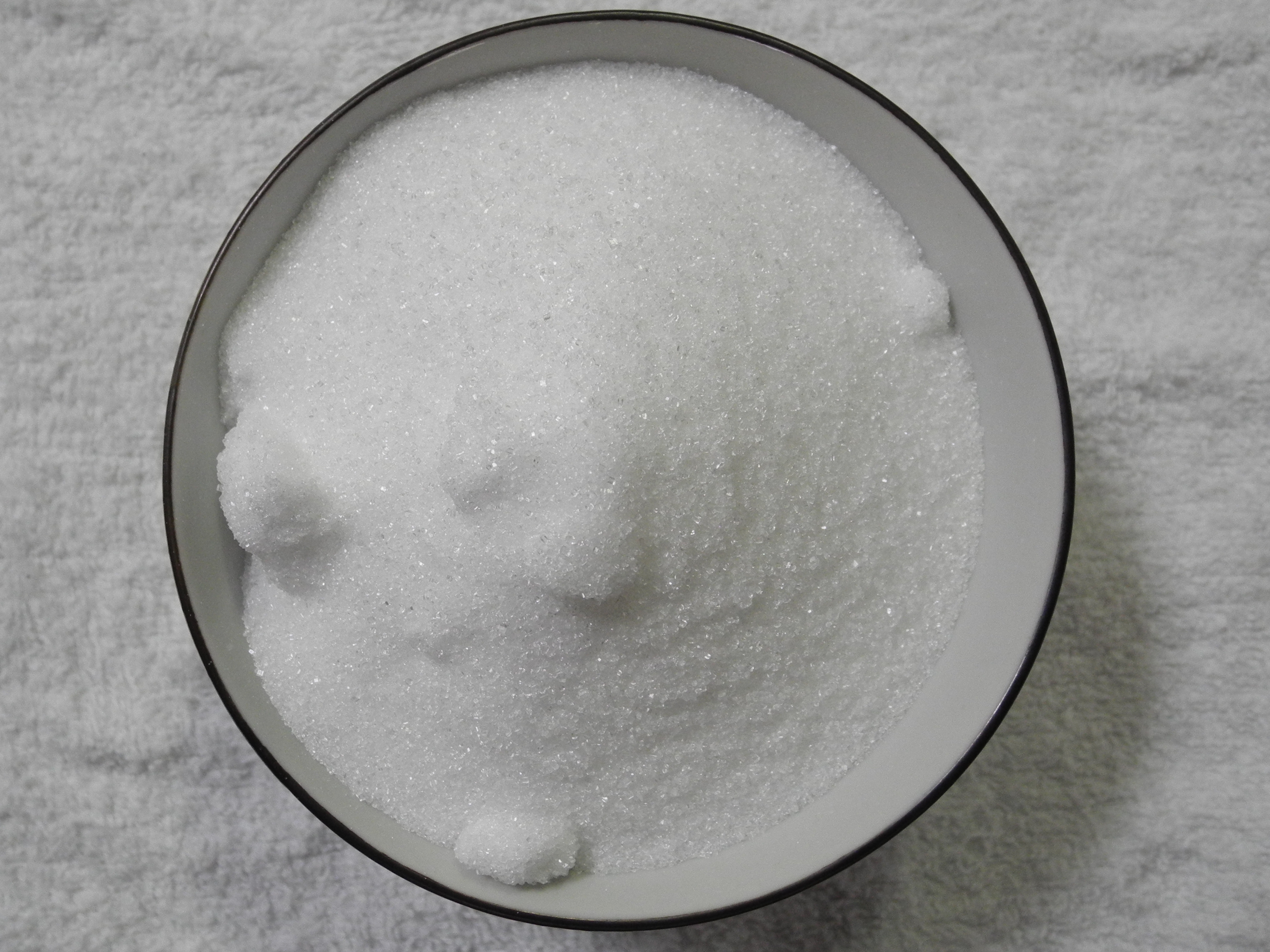 A bowl of white crystal sugar resting on a white towel.